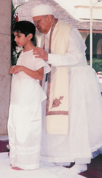 Parsi Navjote (initiation into the Zoroastrian faith)